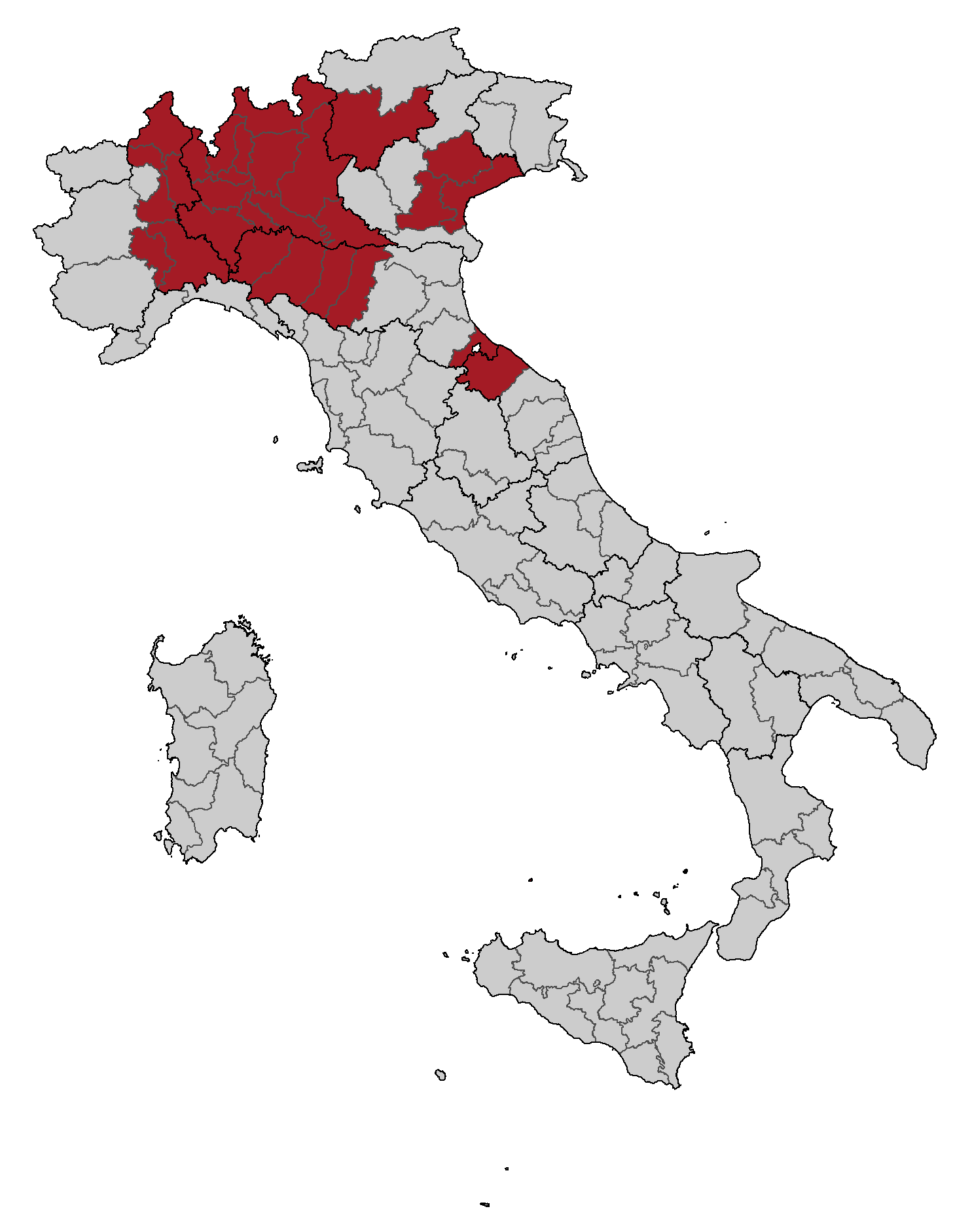 Provinces under quarantine due to COVID-19 outbreak Province under quarantine Alessandria Asti Bergamo Brescia Como Cremona Lecco Lodi Mantua Milan Modena Monza Brianza Novara Padua Parma Pavia Pesaro Urbino Piacenza Reggio Emilia Sondrio Treviso Varese Venice Verbano–Cusio–Ossola Vercelli